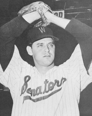 Professional baseball player Pedro Ramos